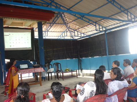 Puthukkadu training